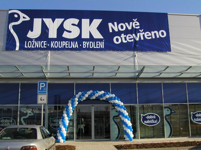 JYSK in Czech Republich